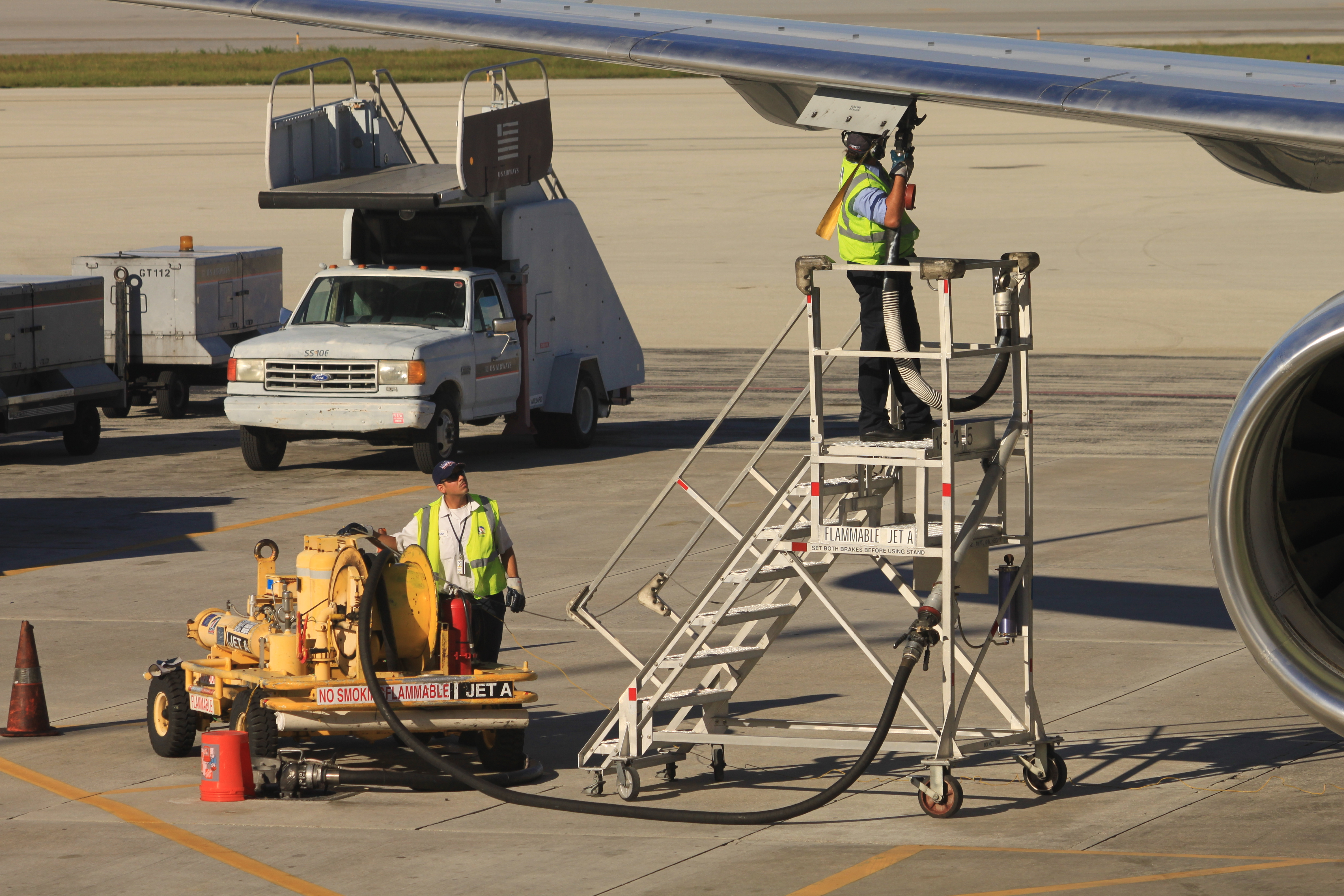 A US Airways aircraft being fueled by a 2-man crew at Ft Lauderdale Airport